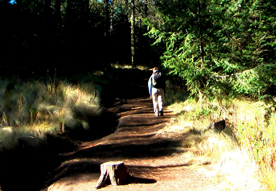 Trekking at Mount La Malinche